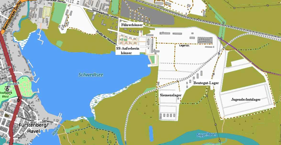 Siemenslager